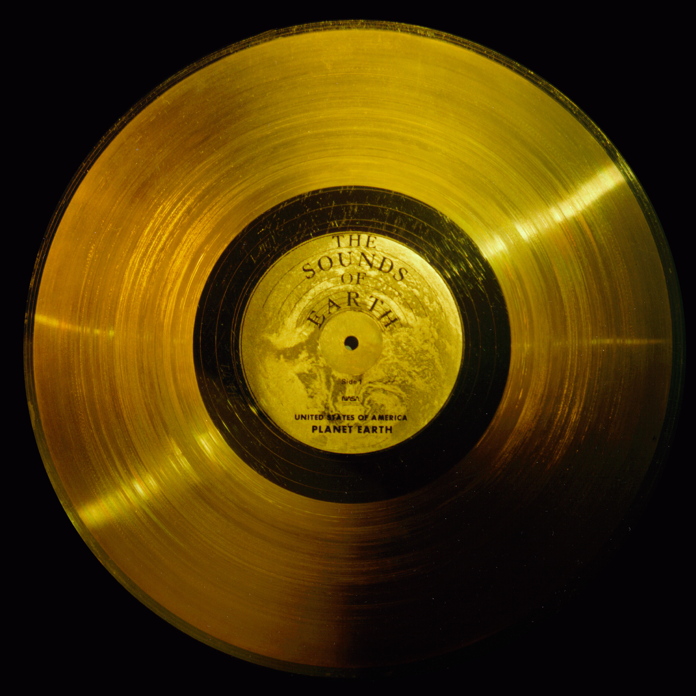 Flying board Voyagers 1 and 2 are identical "golden" records, carrying the story of Earth far into deep space. The 12 inch gold-plated copper discs contain greetings in 60 languages, samples of music from different cultures and eras, and natural and man-made sounds from Earth. They also contain electronic information that an advanced technological civilization could convert into diagrams and photographs. The cover of each gold plated aluminum jacket, designed to protect the record from micrometeorite bombardment, also serves a double purpose in providing the finder a key to playing the record. The explanatory diagram appears on both the inner and outer surfaces of the cover, as the outer diagram will be eroded in time. Currently, both Voyager probes are sailing adrift in the black sea of interplanetary space, having left our solar system years ago.